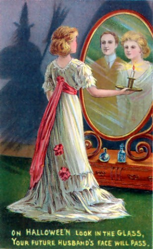 An early 20th century Hallowe'en greeting card